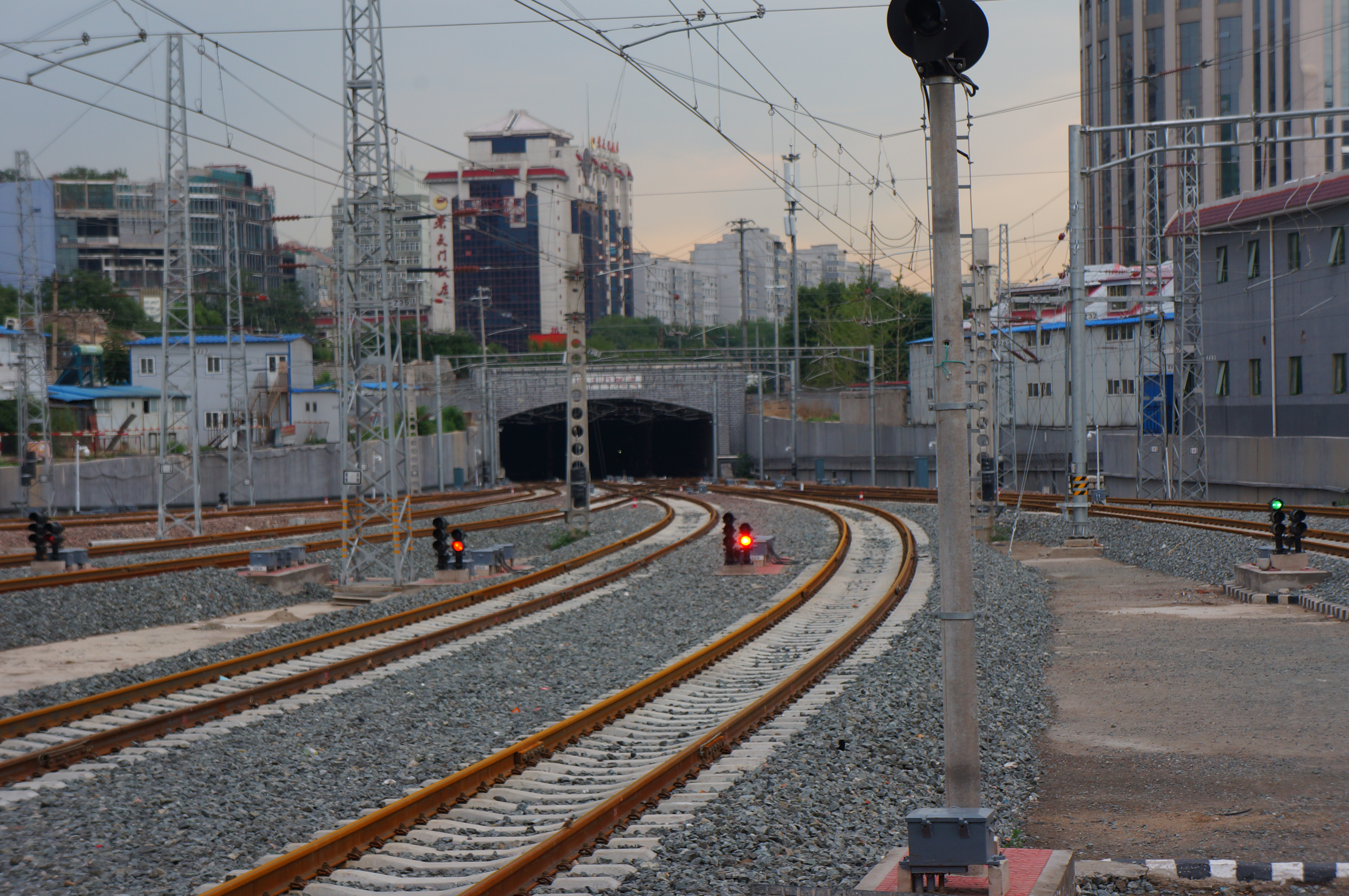 201606 Beijing Underground Tunnel Beijing Station Entrance